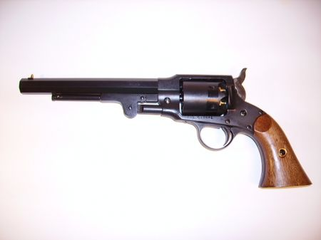 Roger & Spencer Percussion Revolver Cal.44 (Replica)